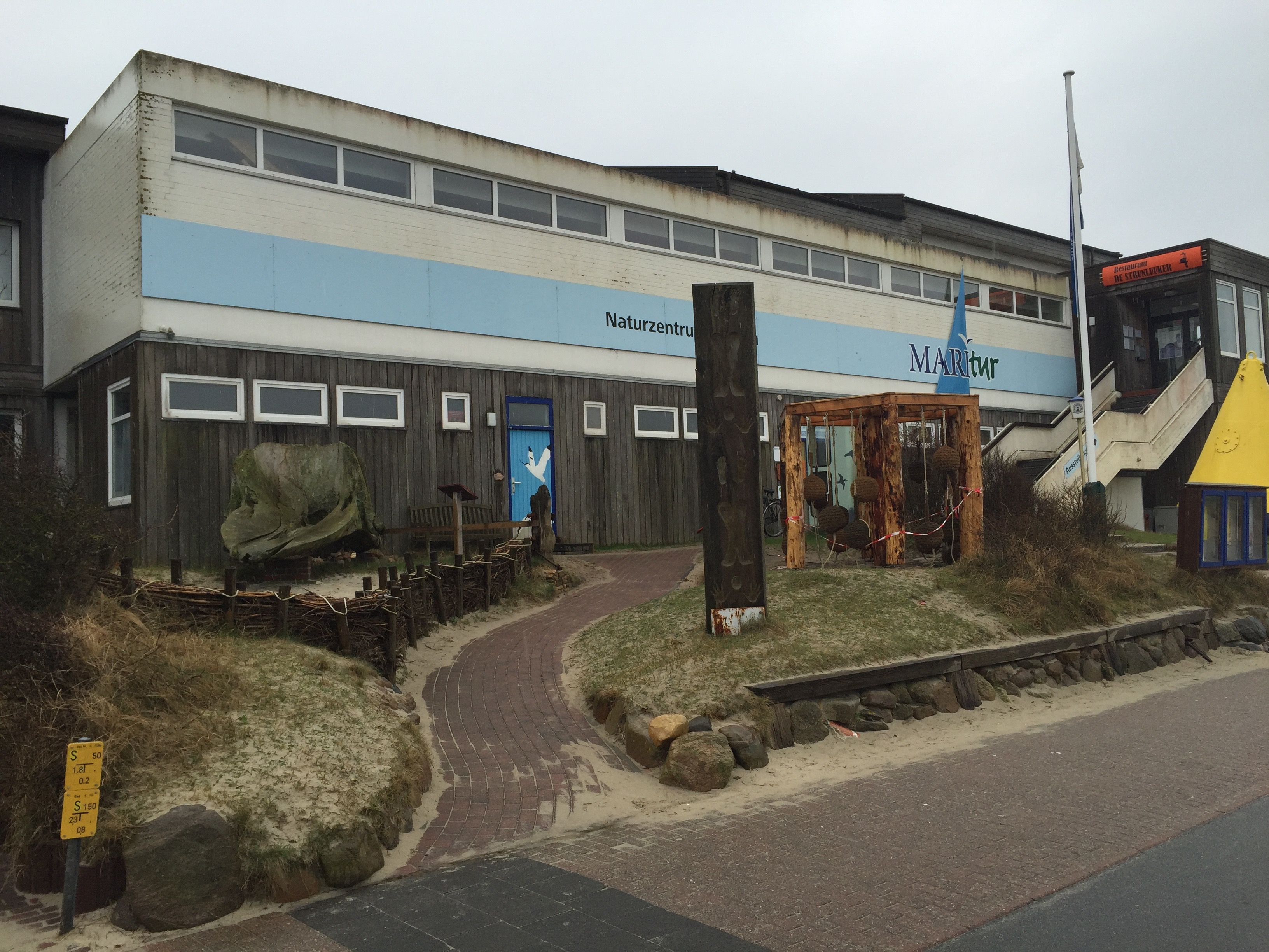 The making of this document was supported by the Community-Budget of Wikimedia Germany. Das Naturzentrum Norddorf